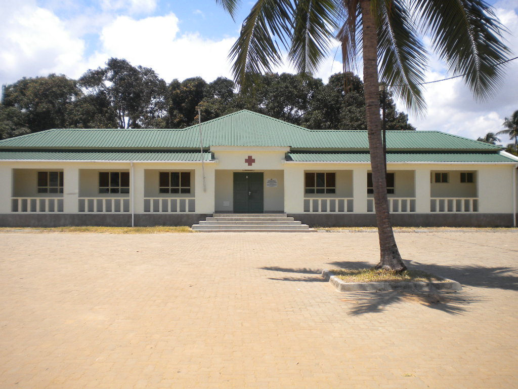 Health Centre in Palma, Mozambique